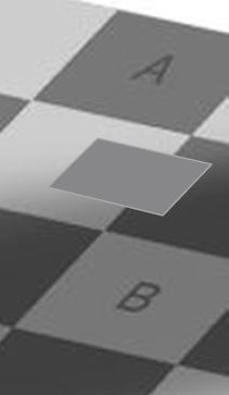 Modified version with extra floating polygon